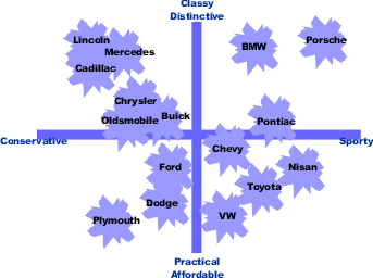 perceptual map - cars